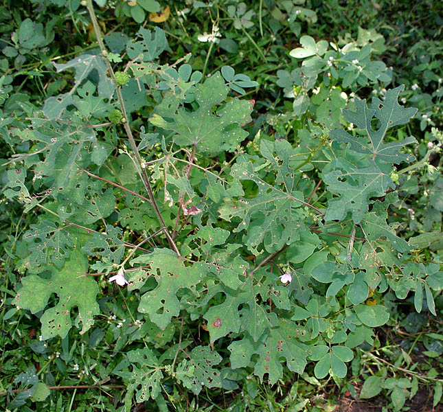 Caesarweed, Congo jute, hibiscus burr, pink burr Urena lobata in Narsapur, Andhra Pradesh, India.